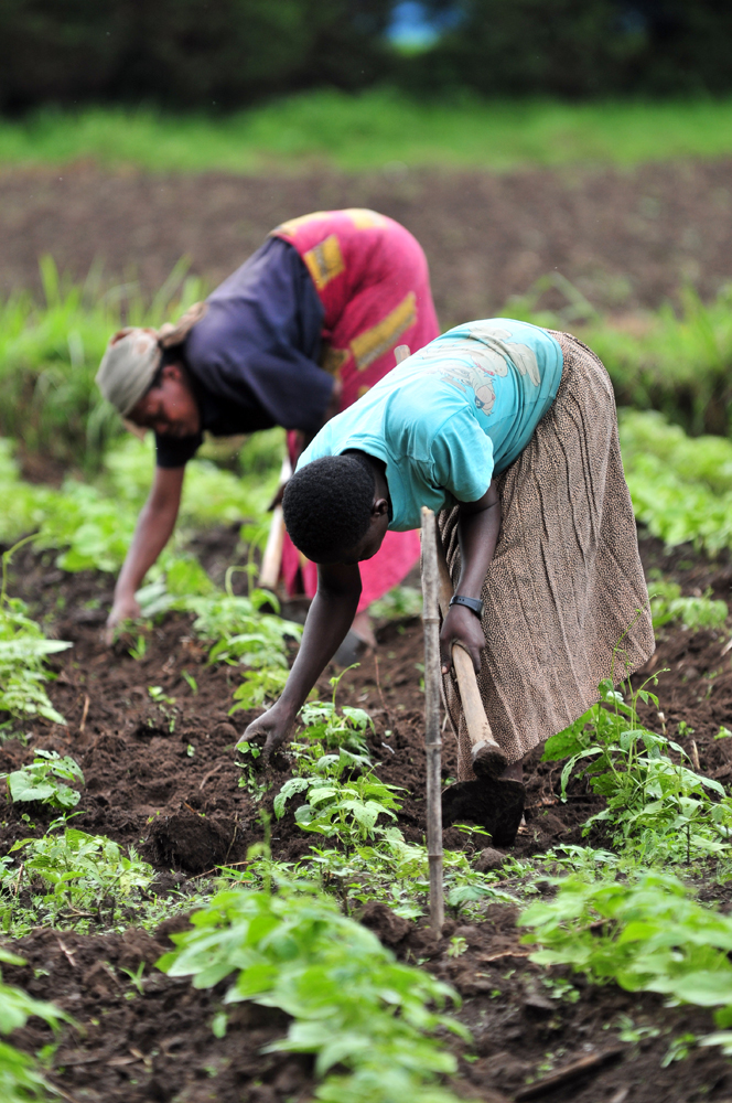 Climbing beans growing in the province of North Kivu, Democratic Republic of Congo.